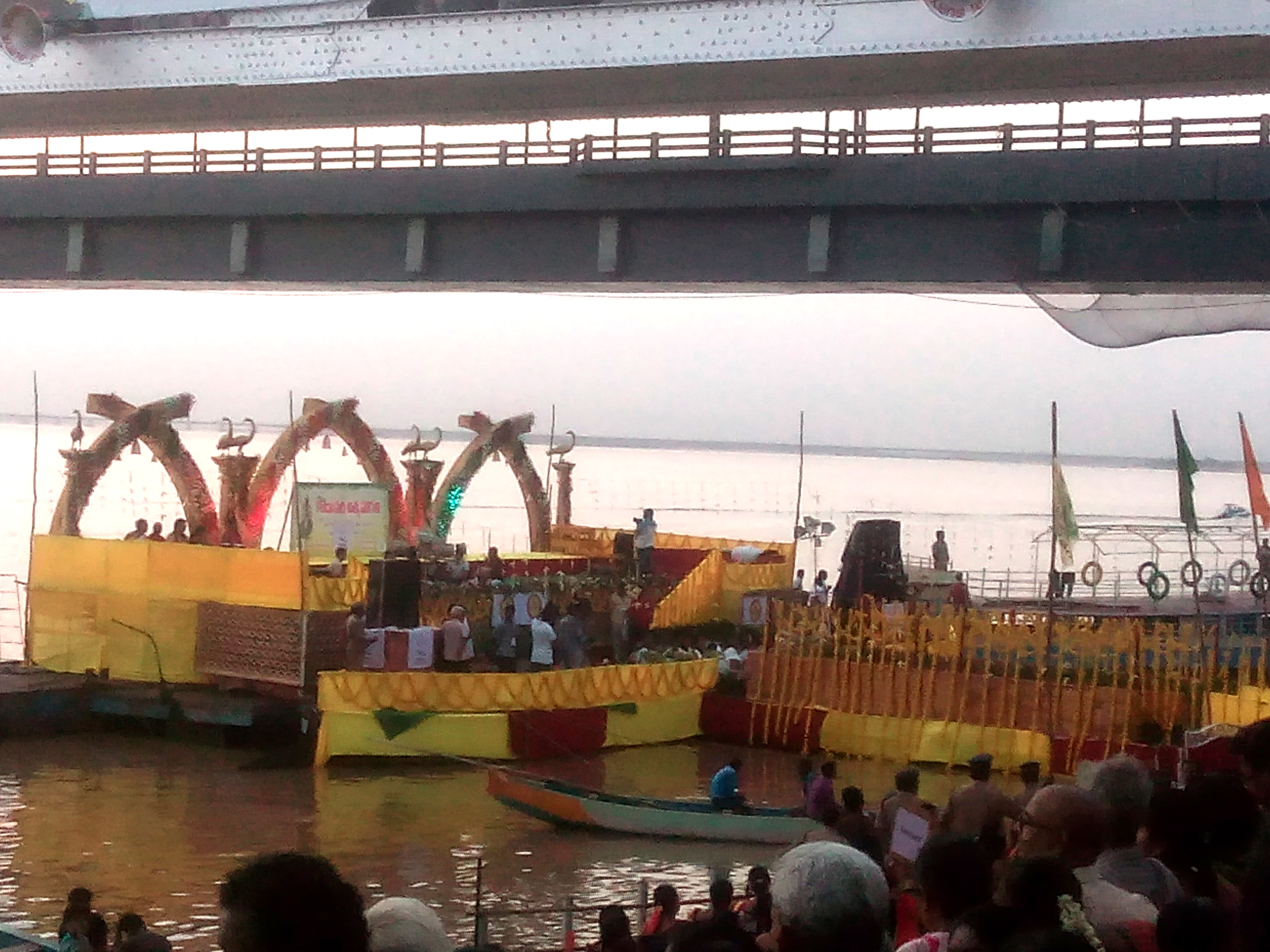 Rajamandry Godavari Pushkaralu 2015 (Godavari Kumbhamela)